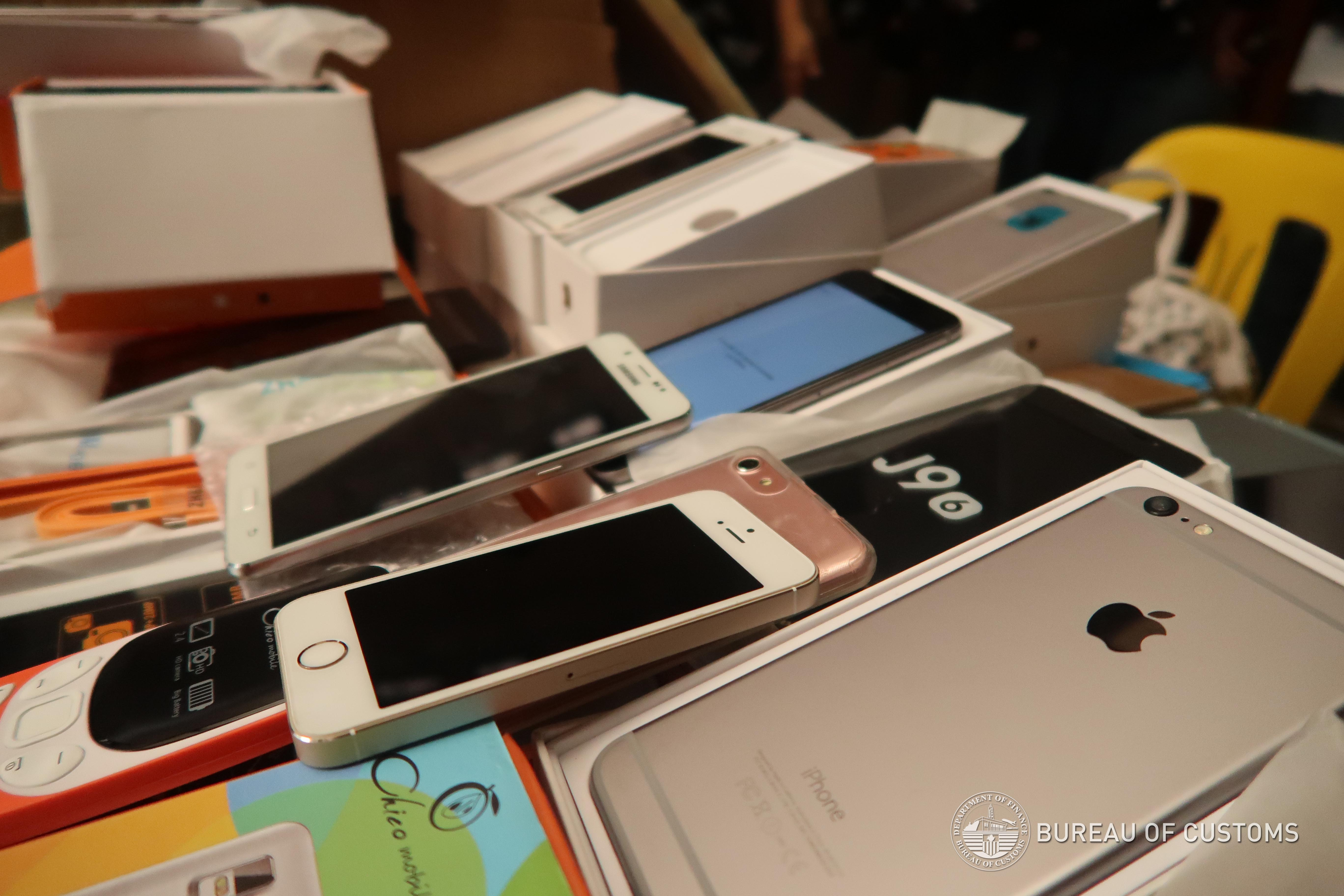 The Bureau of Customs, through the Enforcement and Security Service (ESS), intercepted on Monday more or less 25,000 units of fake iPhones, smartphones, and tablets worth P75-million in a warehouse in Sta. Cruz, Manila. "The operation stemmed from a tip we received last week from a brand owner representative that fake smartphones, iPhones, and tablets are stored in Warehouse 6, #641 Fernandez Street, Sta. Cruz, Manila,” said Commissioner Isidro Lapeña.